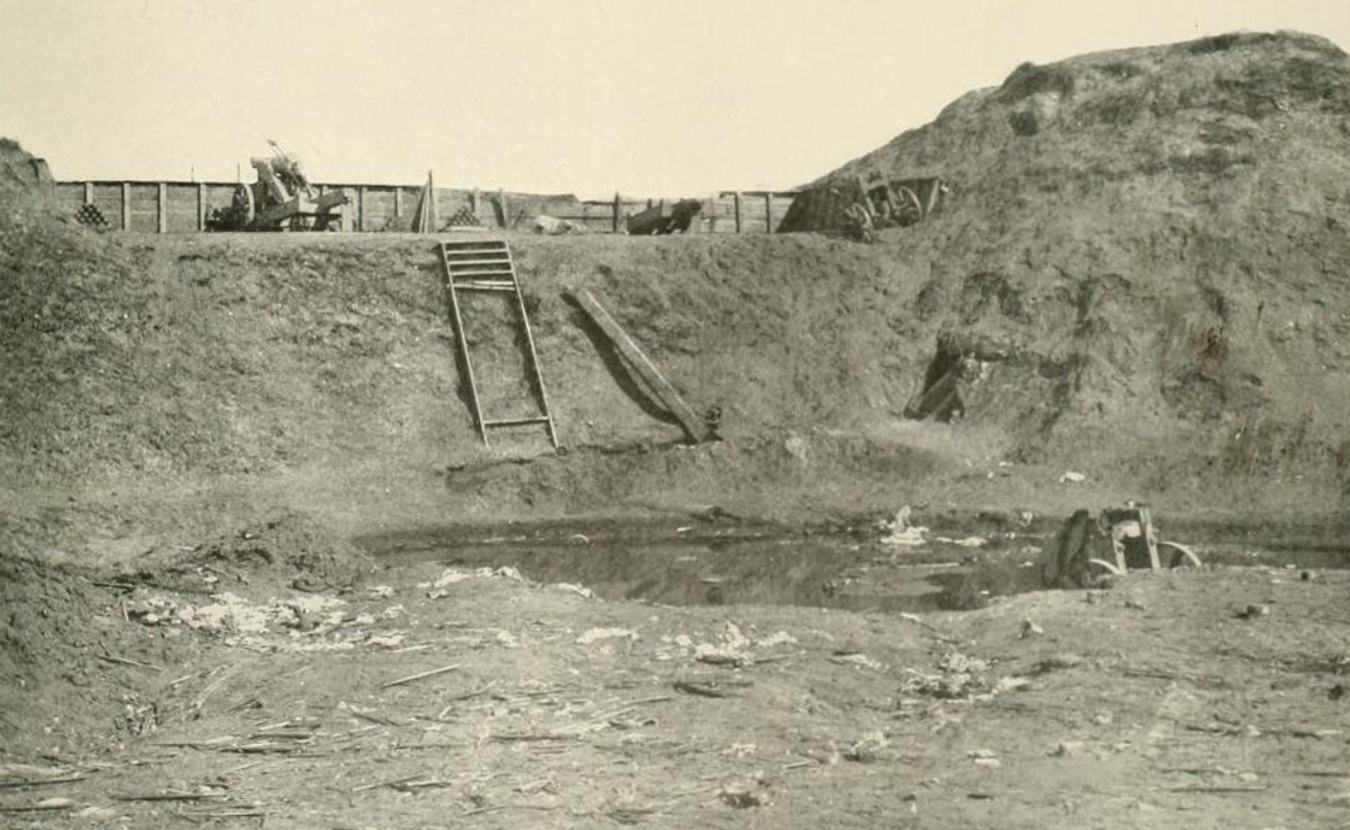 Inside the ramparts of Fort Fisher after its capture